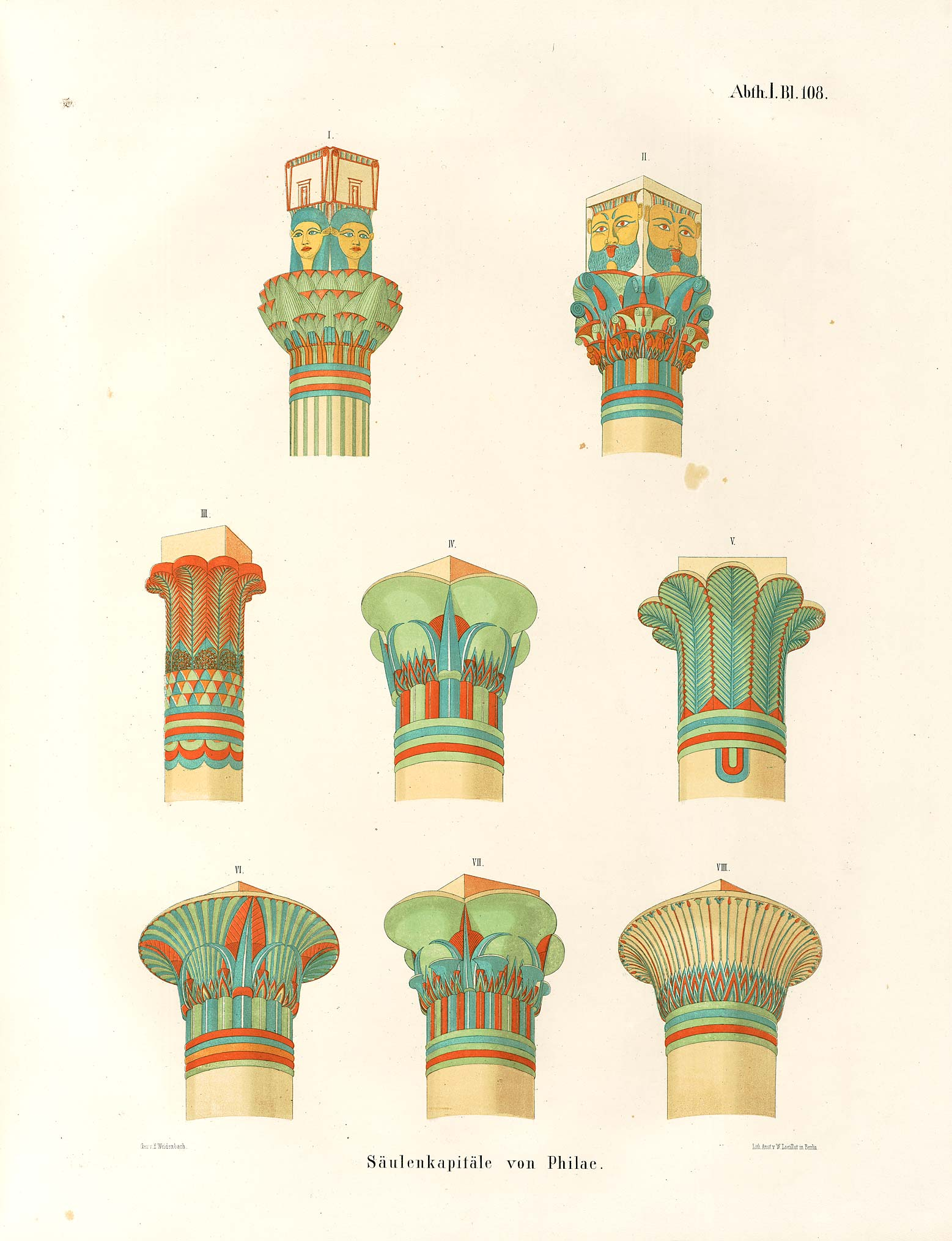 Drawings of all types of architectural capitals from the Ancient Egyptian civilization. The images were done as a result of scientific expedition from 1842-1845, led by the egyptologist Karl Richard Lepsius.